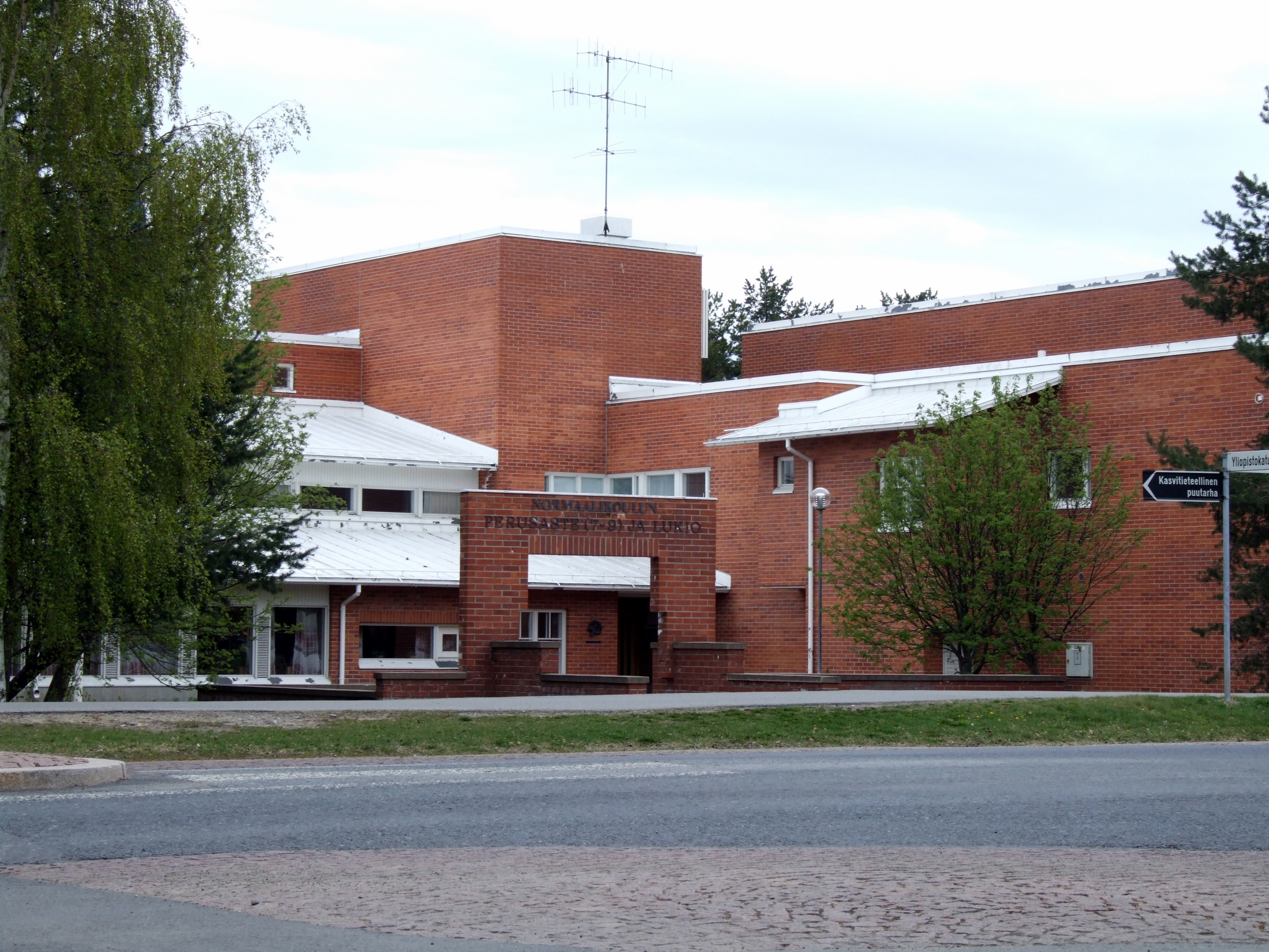 Oulun normaalikoulu Upper secondary school is a training school for University of Oulu, Finland. The building was designed by architect Heikki Taskinen (1982–83).